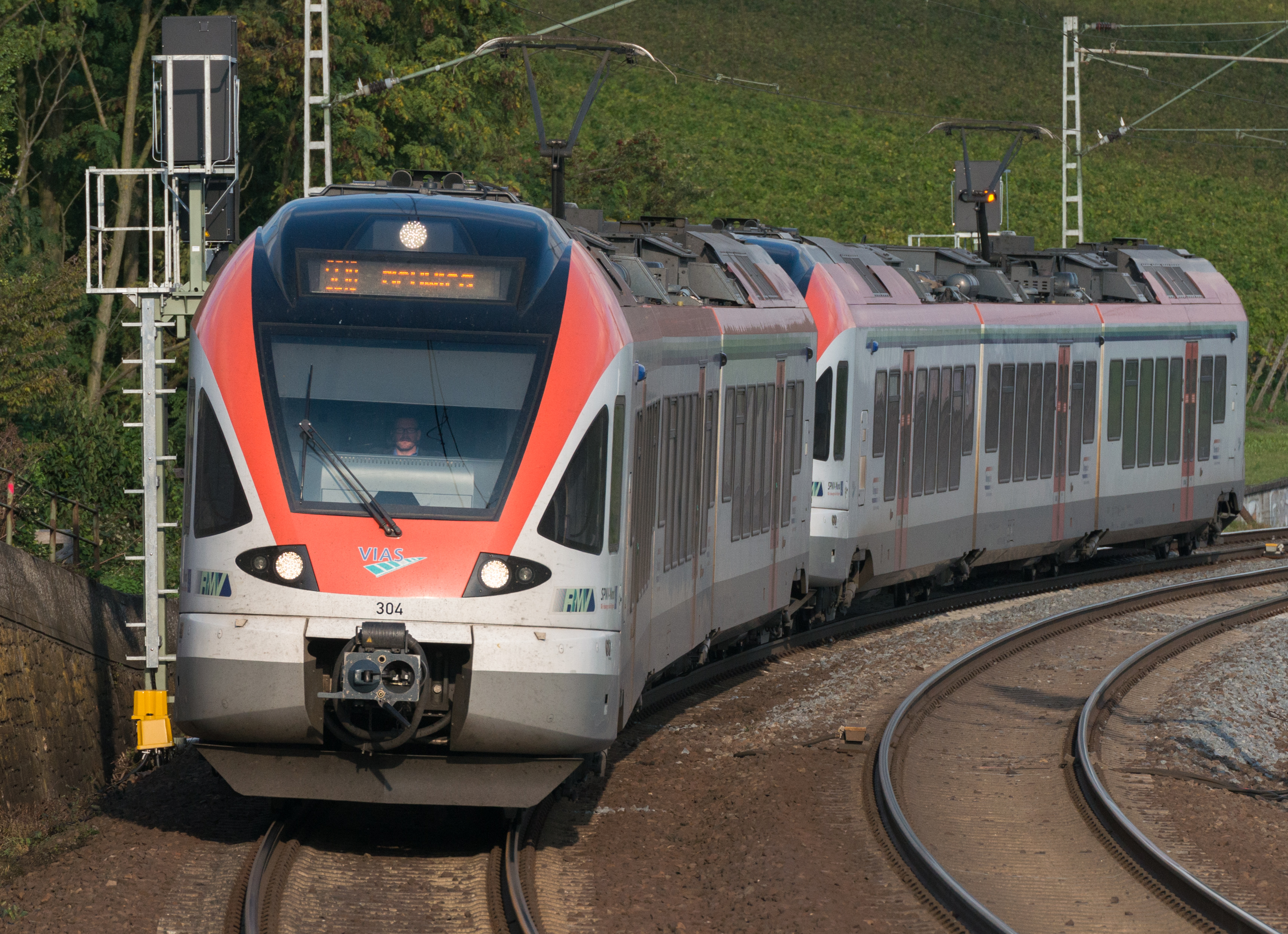 A Stadler FLIRT, operated by VIAS on the RheingauExpress line SE10 between Frankfurt and Neuwied